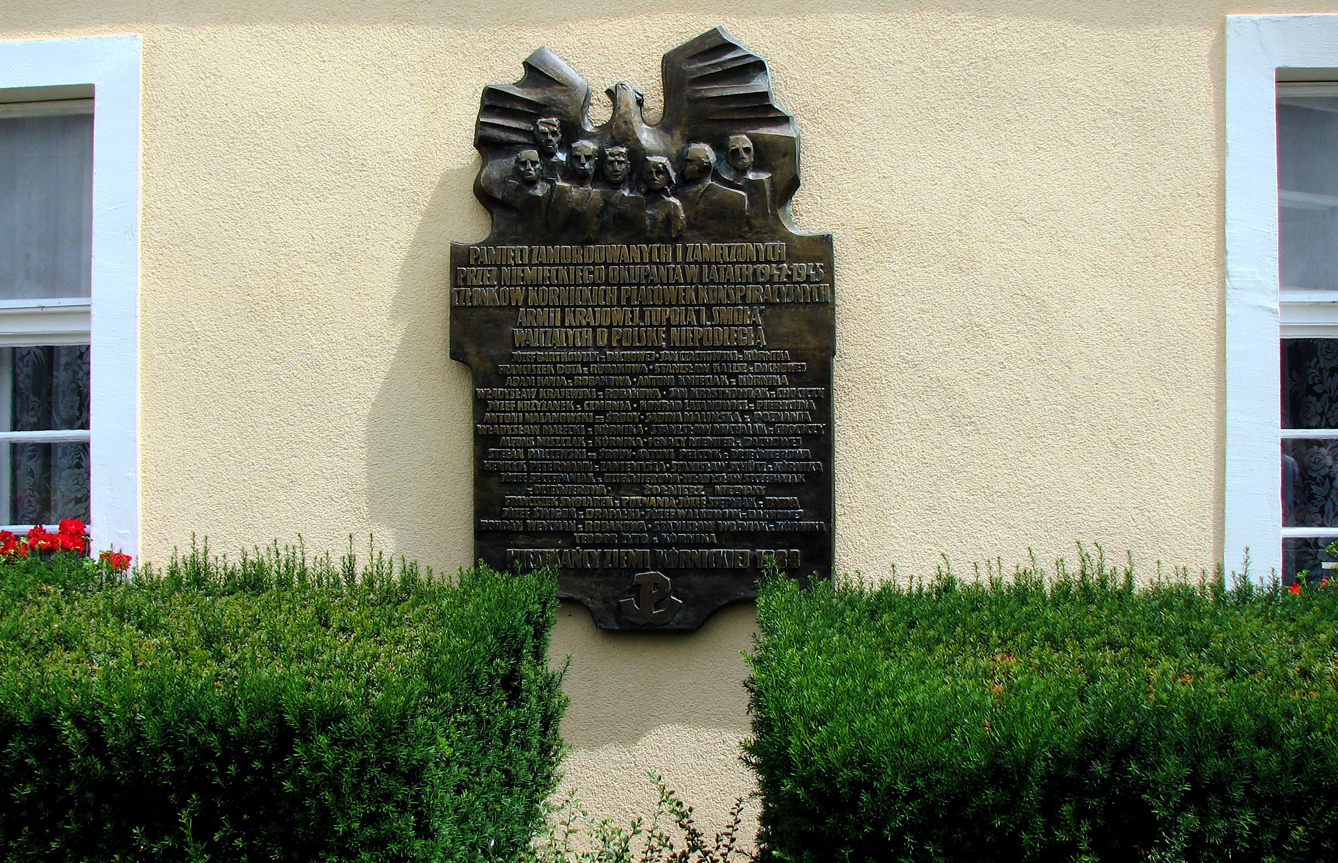 Kórnik, Greater Poland Voivodship, Poland. WWII monument